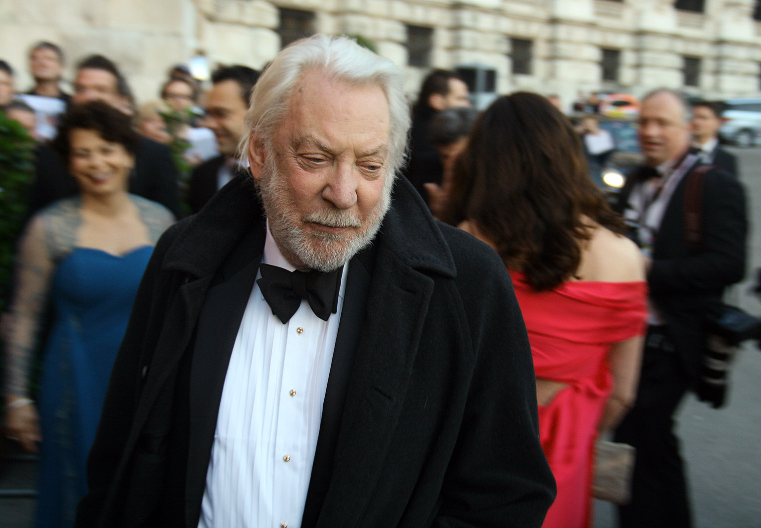 Donald Sutherland at the Romy TV awards (Hofburg Imperial Palace in Vienna)